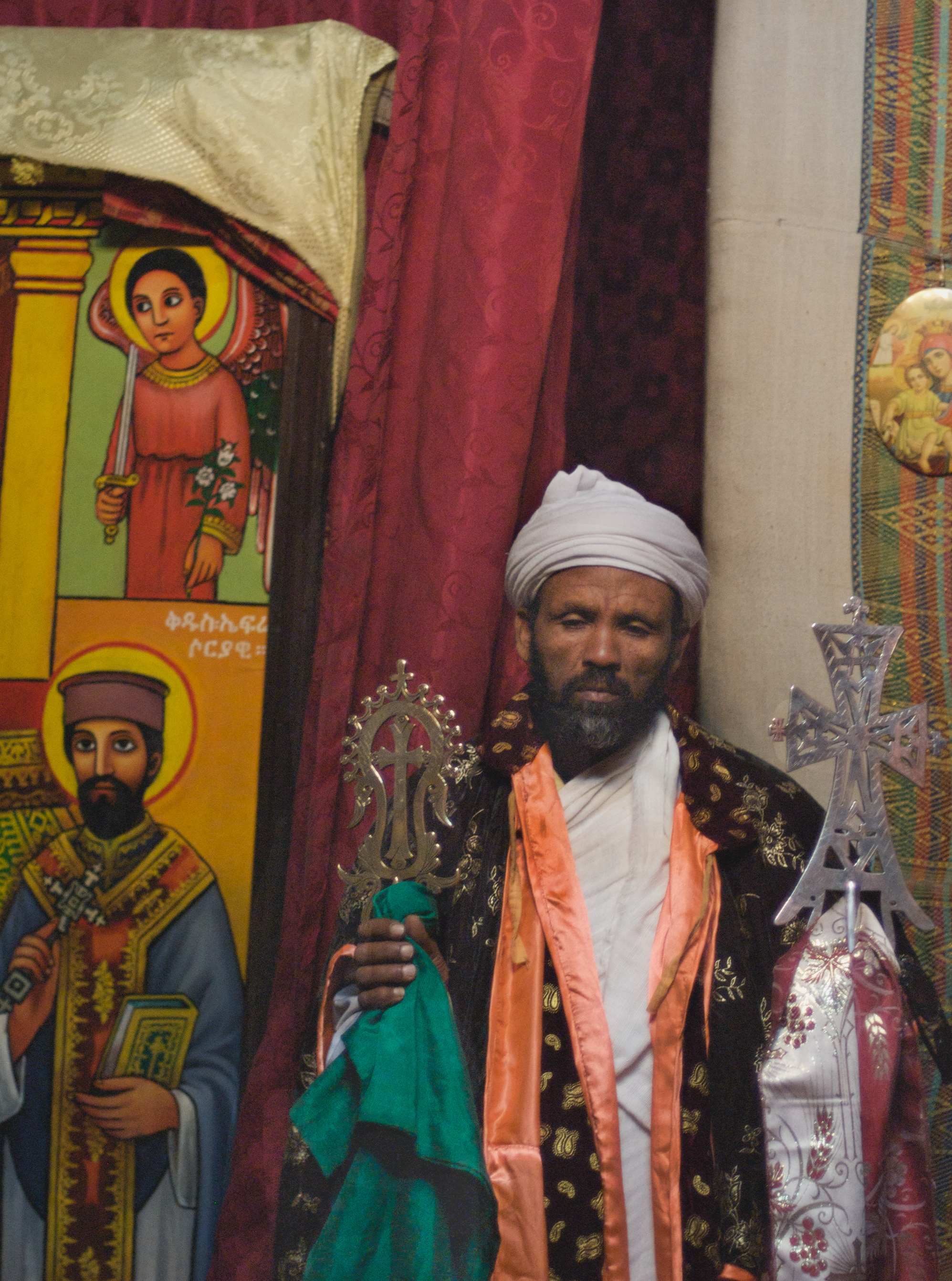 The vestments this priest wore were unusually fine and beautiful. The priest's eyes are downcast because of the flash photography in the room. He was actually a personable guy.